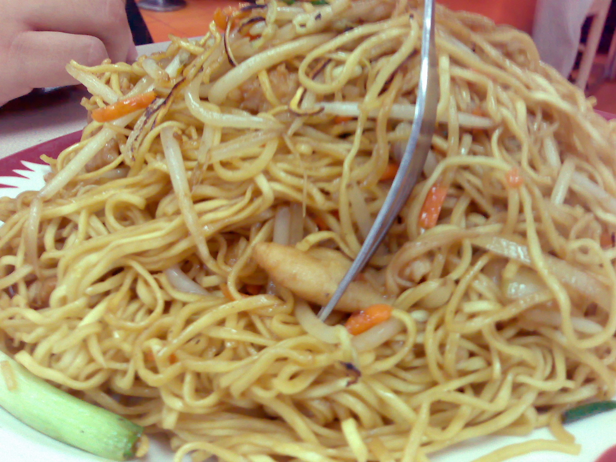 Taken at 1:58 PM on January 26, 2007 - cameraphone upload by ShoZuChicken Chow Mein at New Town Bakery - Roland N80i in Vancouver 384